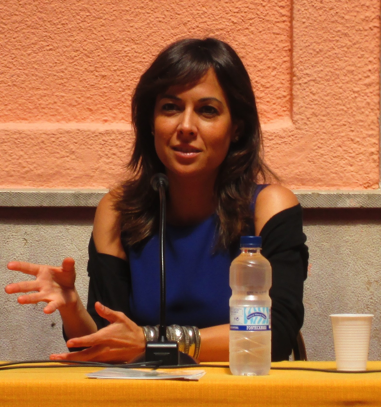 Mara Torres zaragoza 2013. Junio.